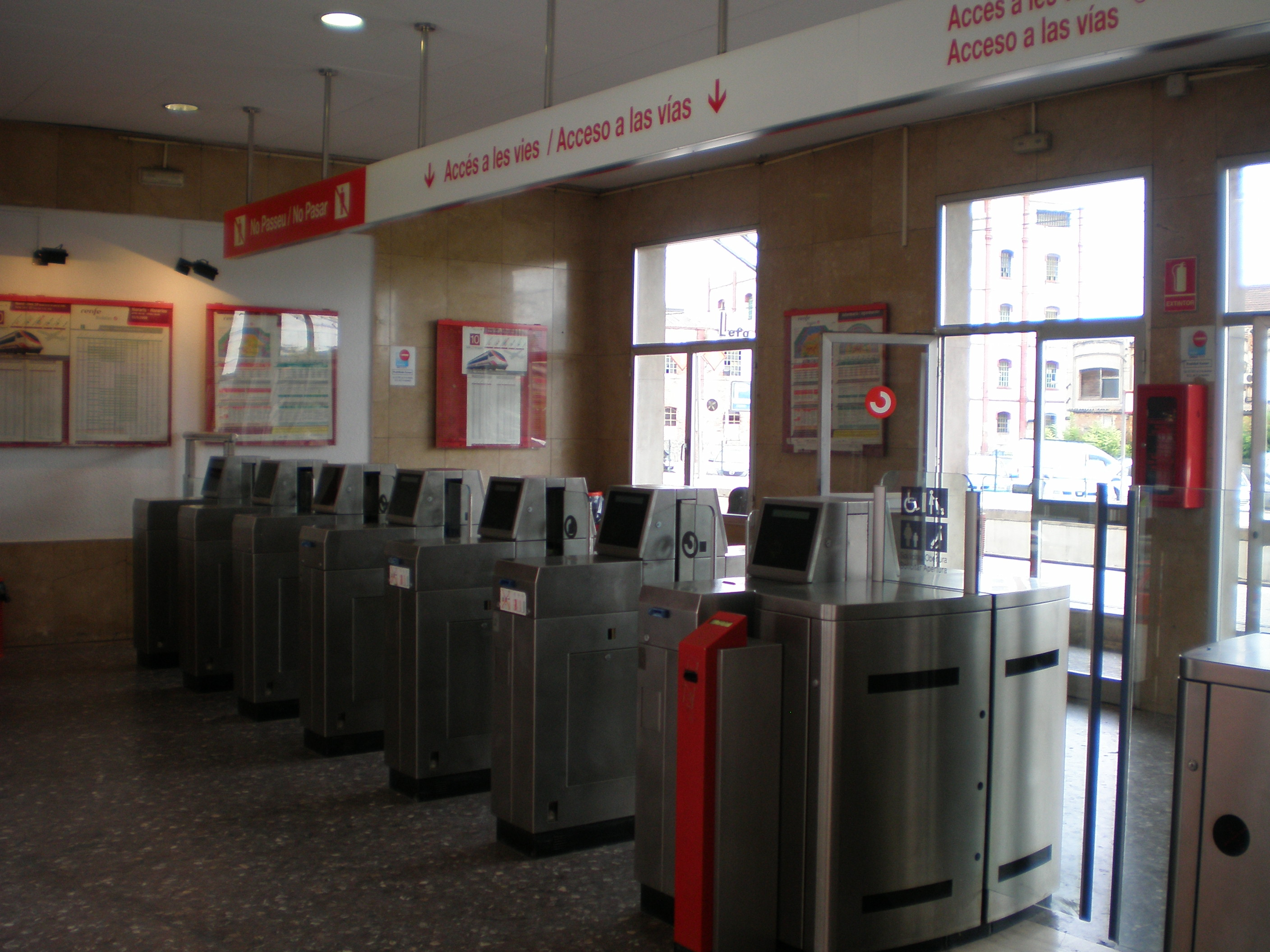 Hall Mollet Sant Fost railway station